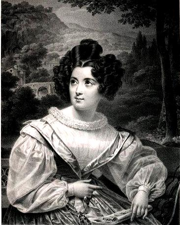 Lithography of Léontine Fay.